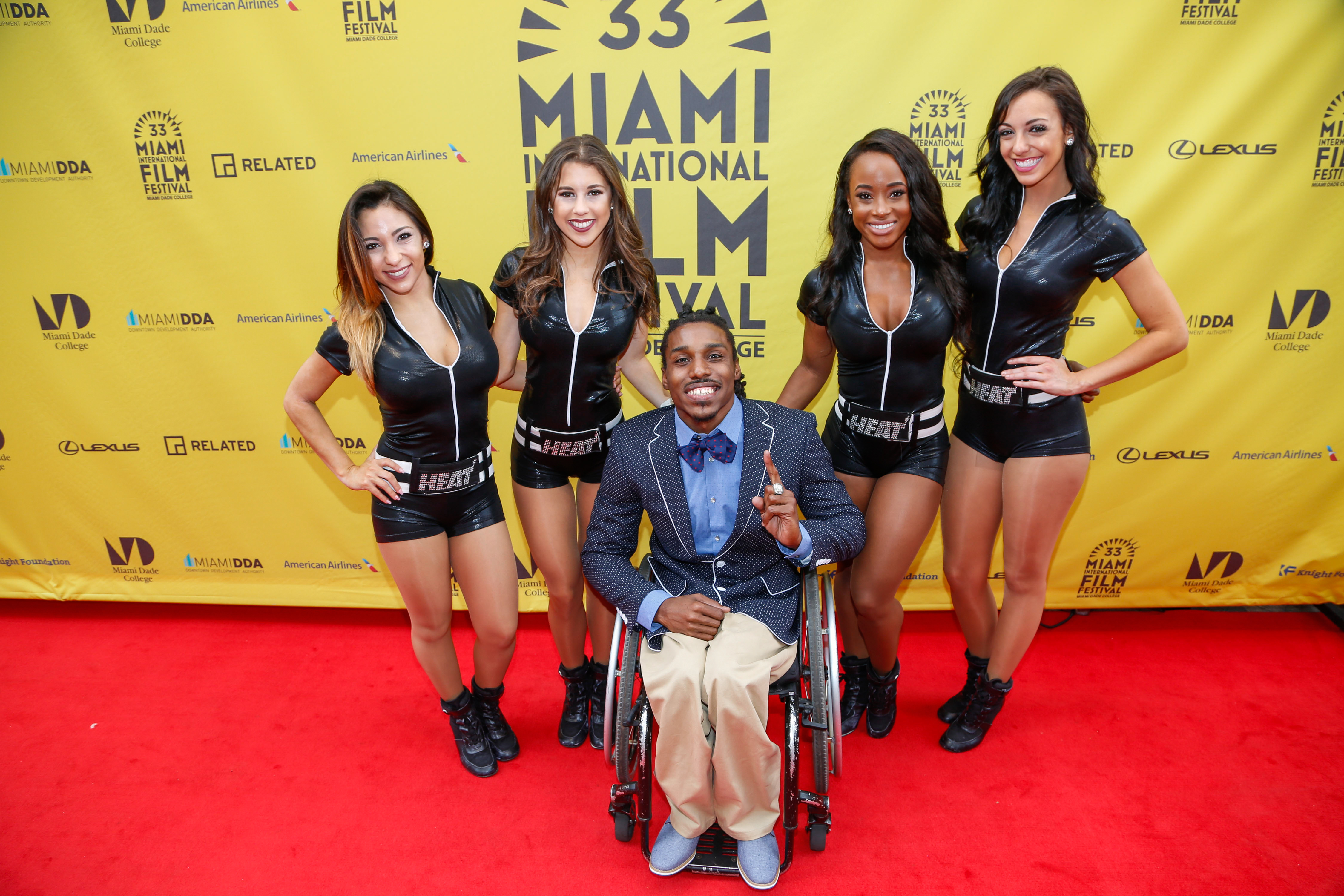 Jeremie Thomas and the Miami Heat dancers at the 2016 Miami International Film Festival World Premiere of "Who Is Lou Gehrig"+ "THE REBOUND"